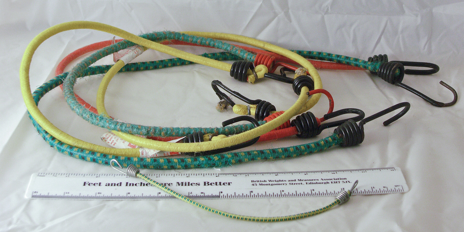 Collection of small Bungee Cords